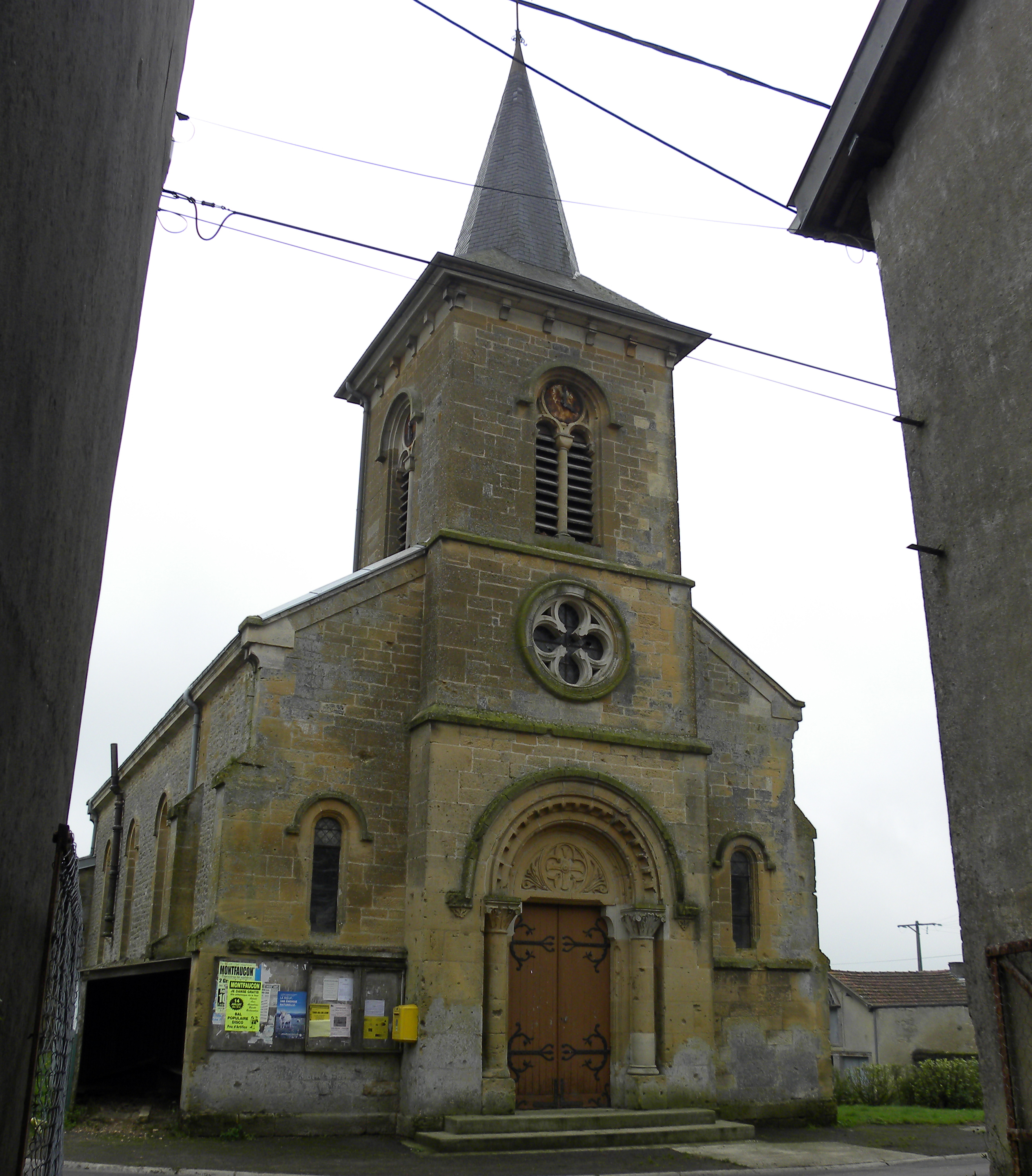 Church at Cunel, France, on the Meuse-Argonne battlefield.